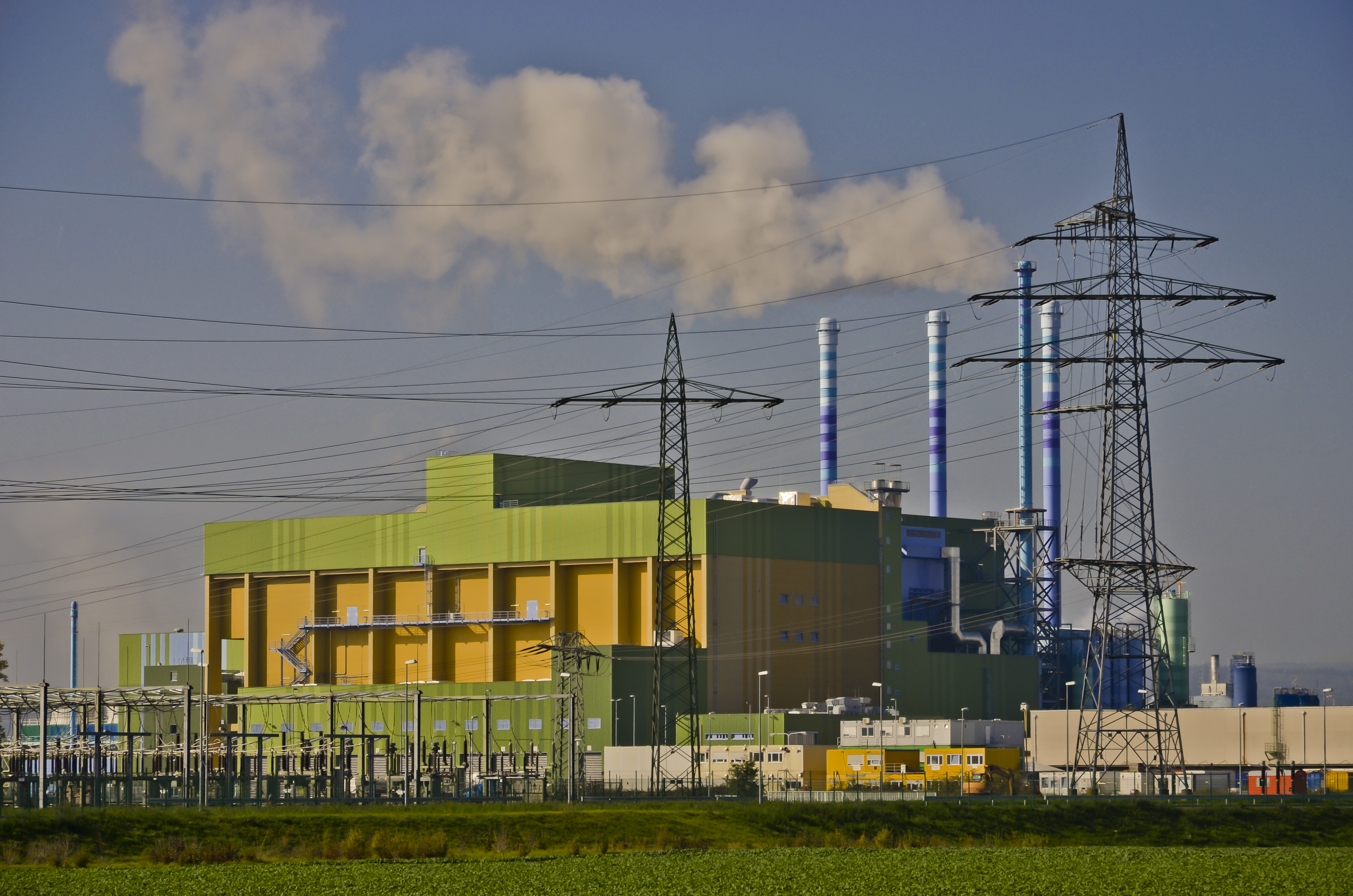 Incinerator (waste-to-energy plant; waste incineration plant), Industry park Höchst, Hesse, Germany. Presumably the largest incinerator in Germany with a capacity of about 675000 tons per year.